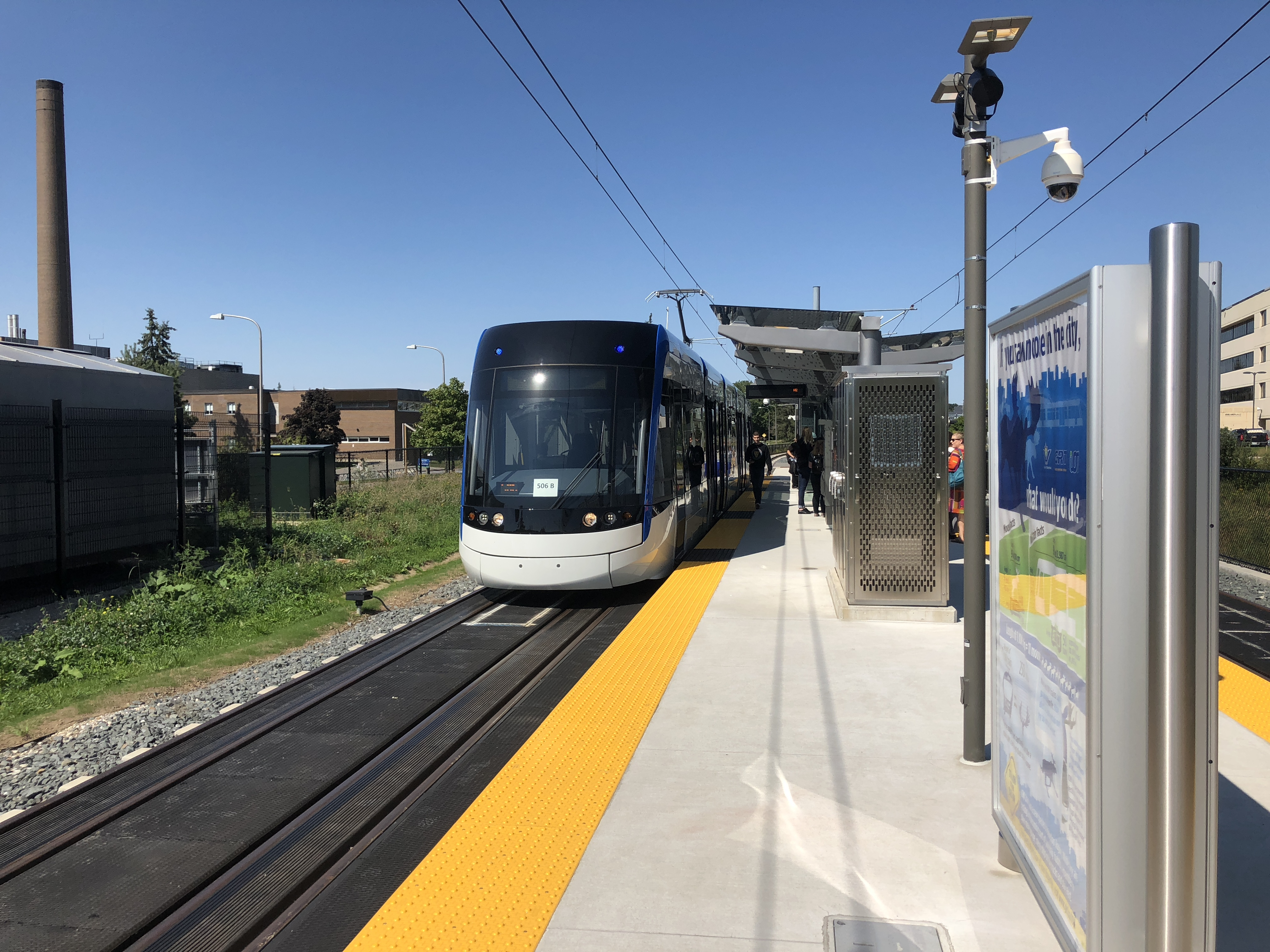 Flexity Freedom 506 at University of Waterloo station.